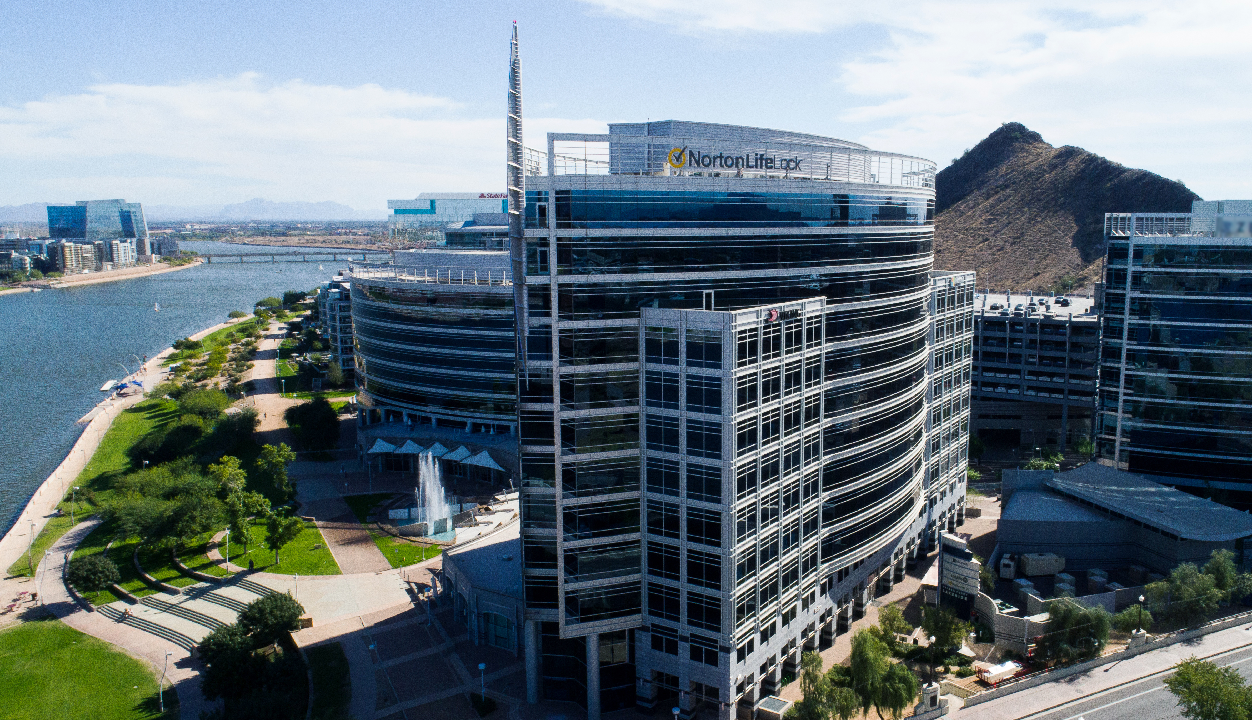 An aerial photo of Norton LifeLock's headquarters in Tempe, Arizona